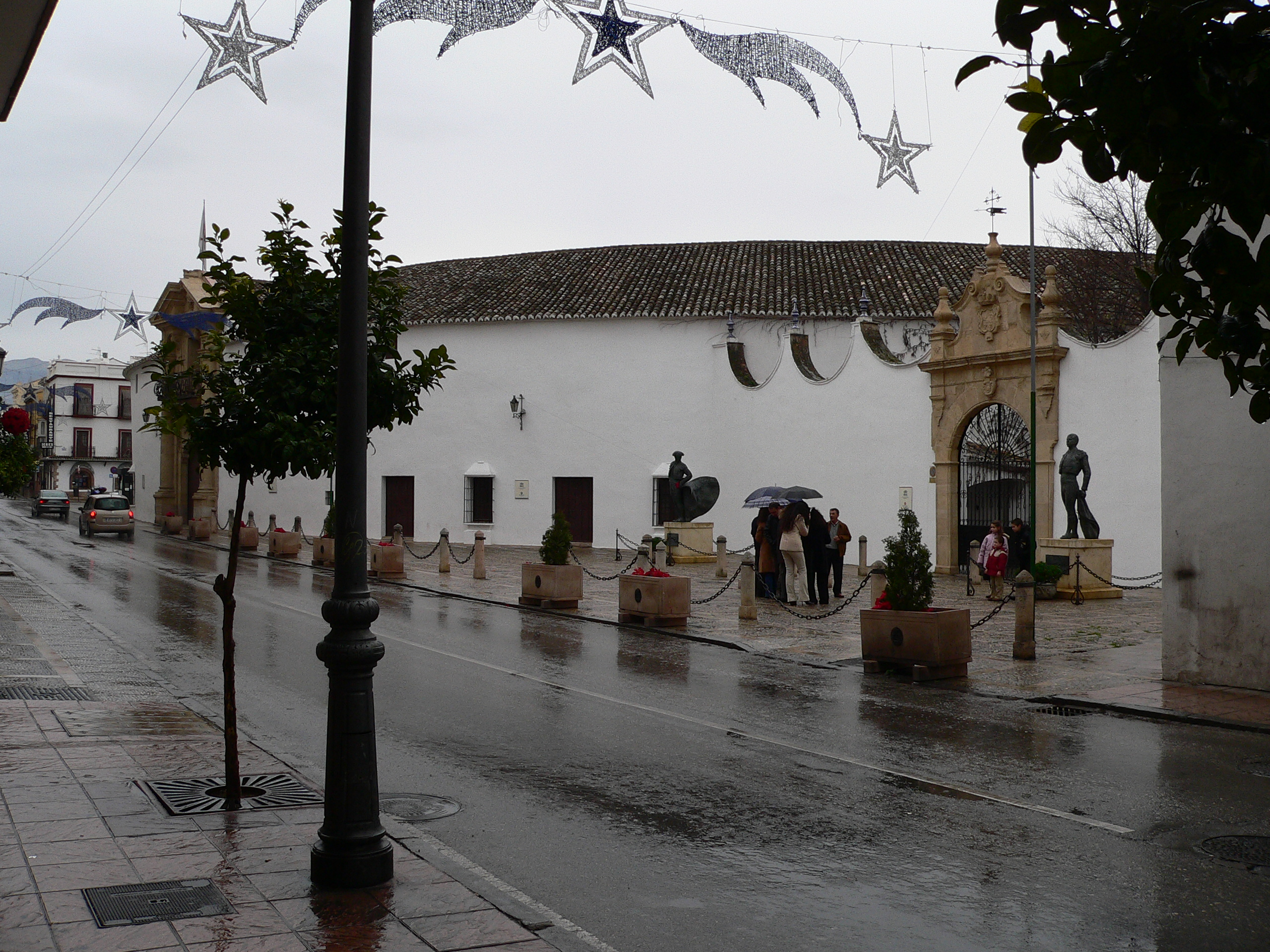 Description: Bullring City : Ronda Country : Spain Photographer: © Manuel González Olaechea y Franco Shot date : December, 25th, 2005